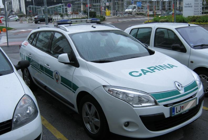 The Car of Slovenian Customs